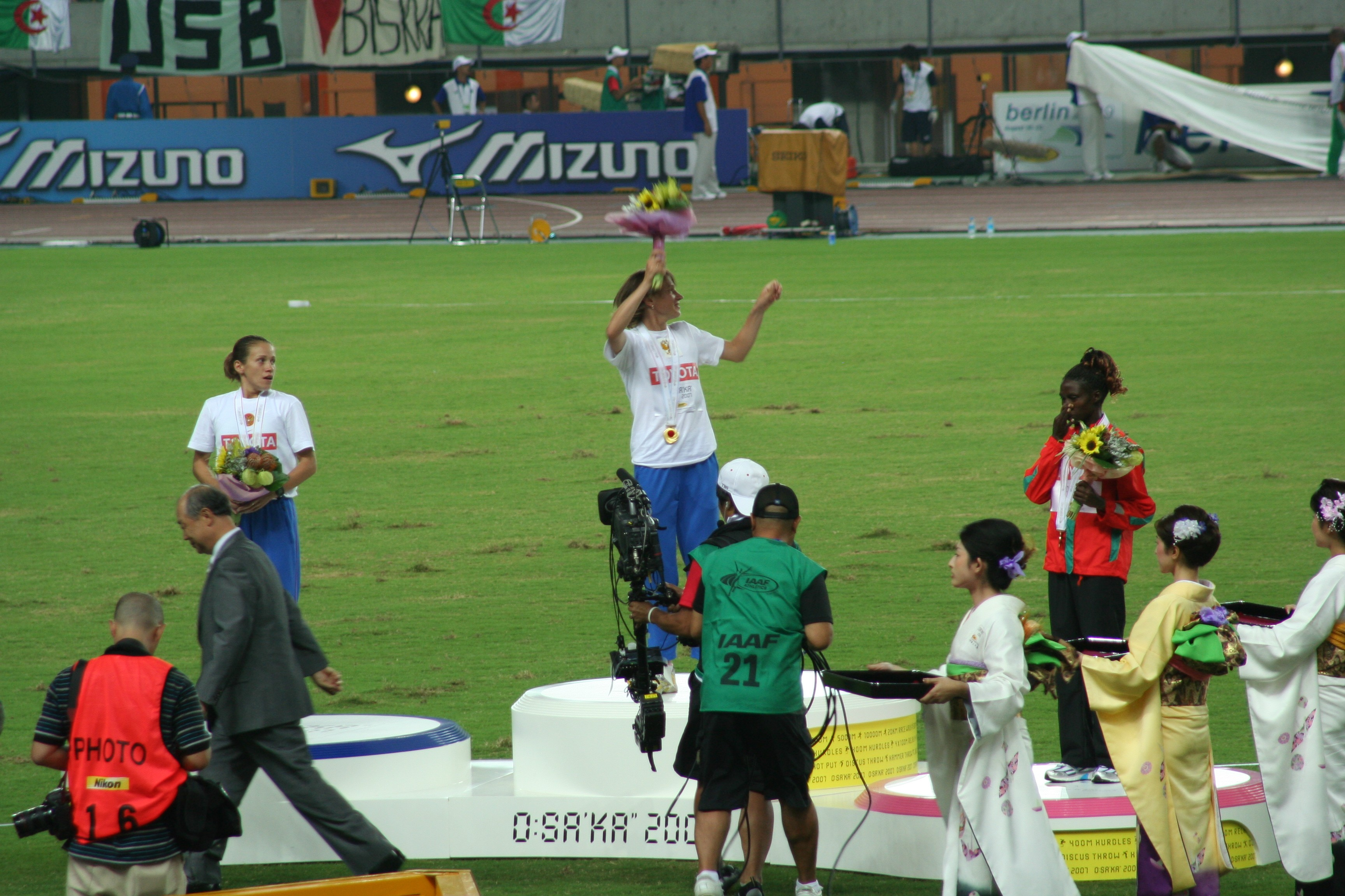 World Athletics Championships 2007 in Osaka - Victory Ceremony for Women's 3000 metres steeplechase. Shows Winner Yekaterina Volkova (middle), 2nd placed Tatyana Petrova (left) and bronze medal winner Eunice Jepkorir (right)